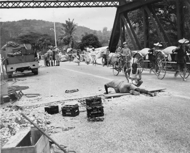 IWM caption : Royal Engineers prepare to blow up a bridge in Malaya during the British retreat to Singapore. In the background Chinese rickshaws loaded with rice from abandoned government stocks are crossing the bridge. The Allied forces under General Arthur Percival surrendered to General Yamashita in Singapore on 15 February 1942 after a Japanese campaign in Malaya lasting nearly 70 days.